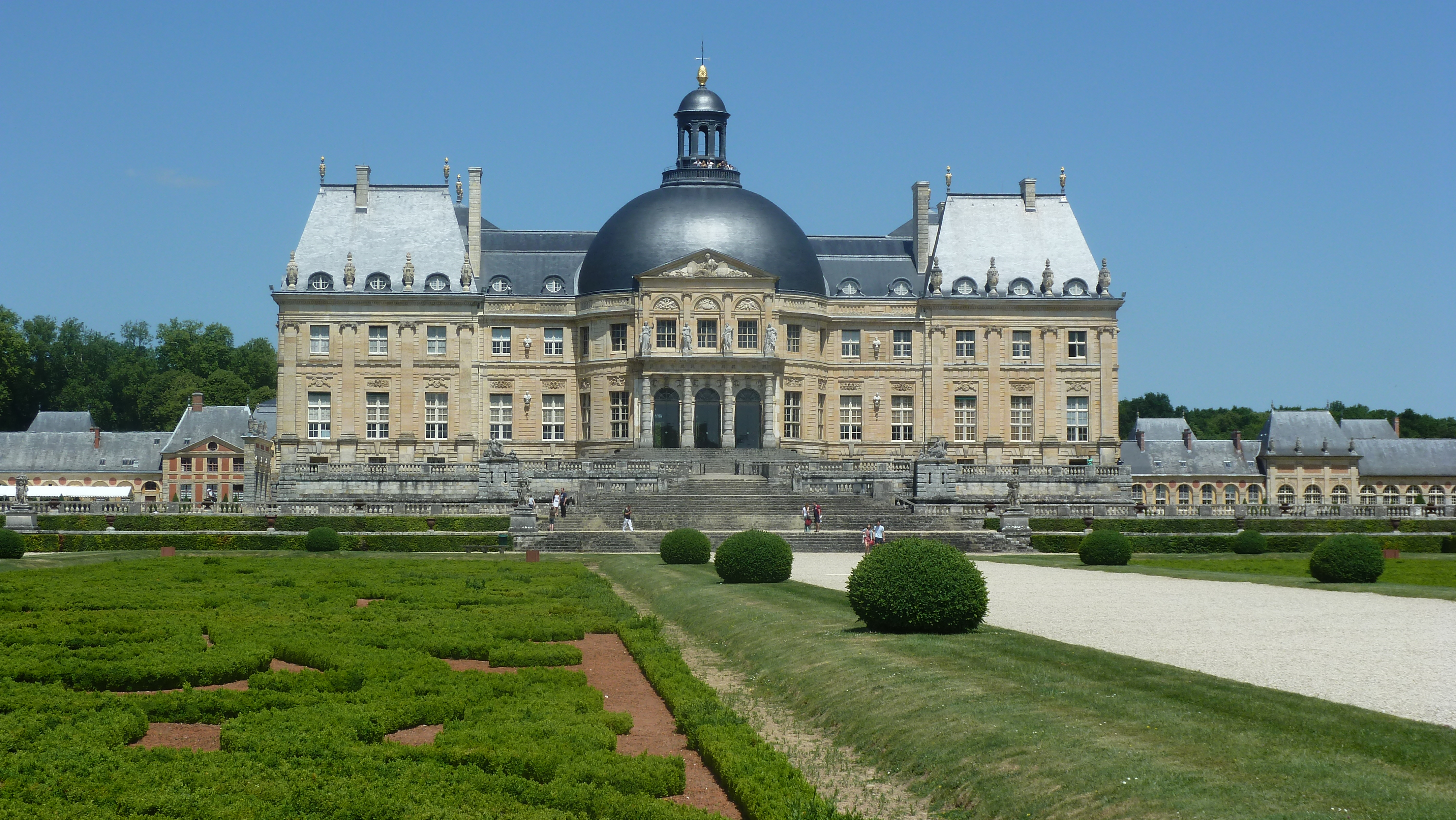 Château de Vaux-le-Vicomte, June 2015